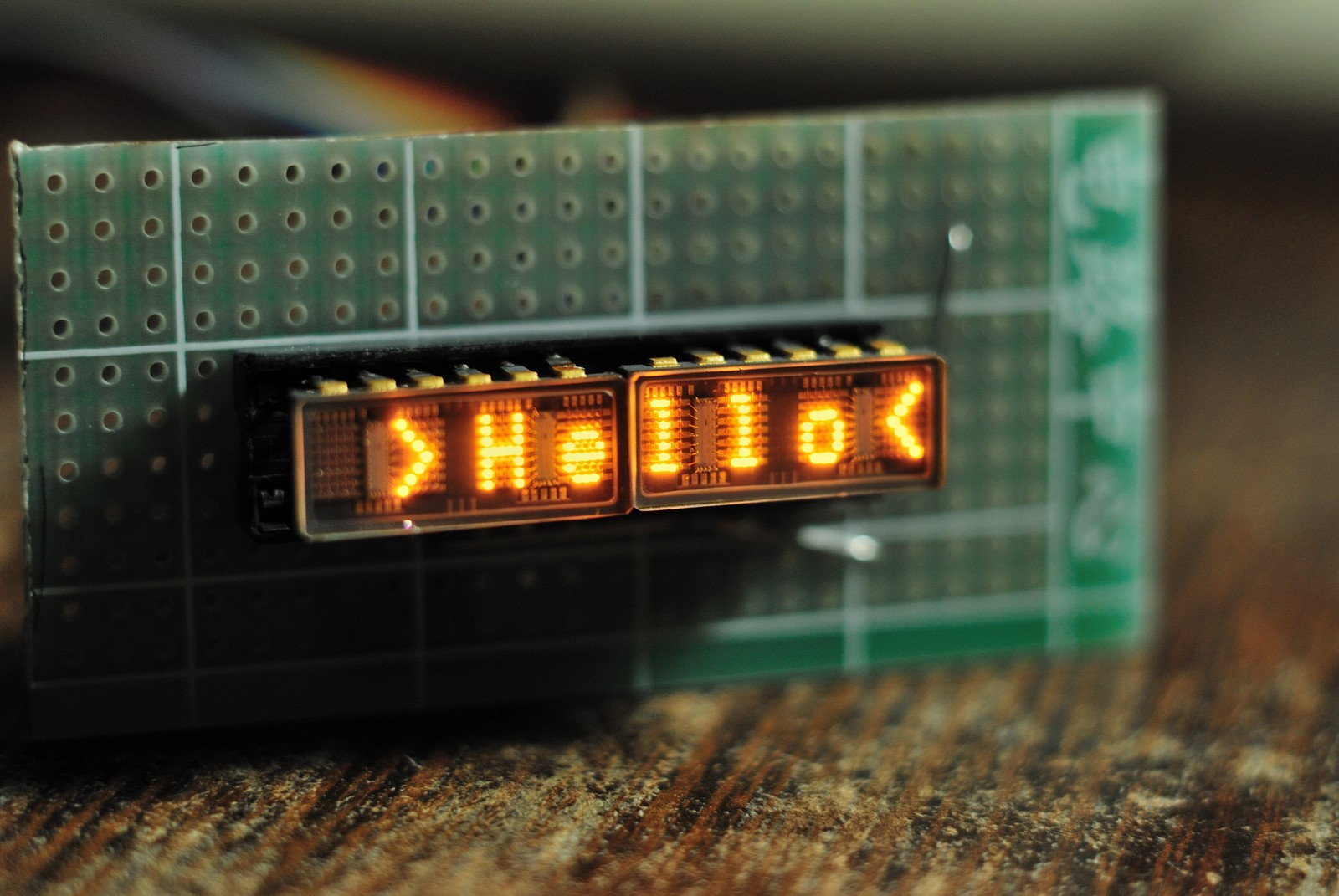 Tiny dot-matrix LED display made by Hewlett Packard. This device is made with military/avionics standards and can work in harsh conditions.